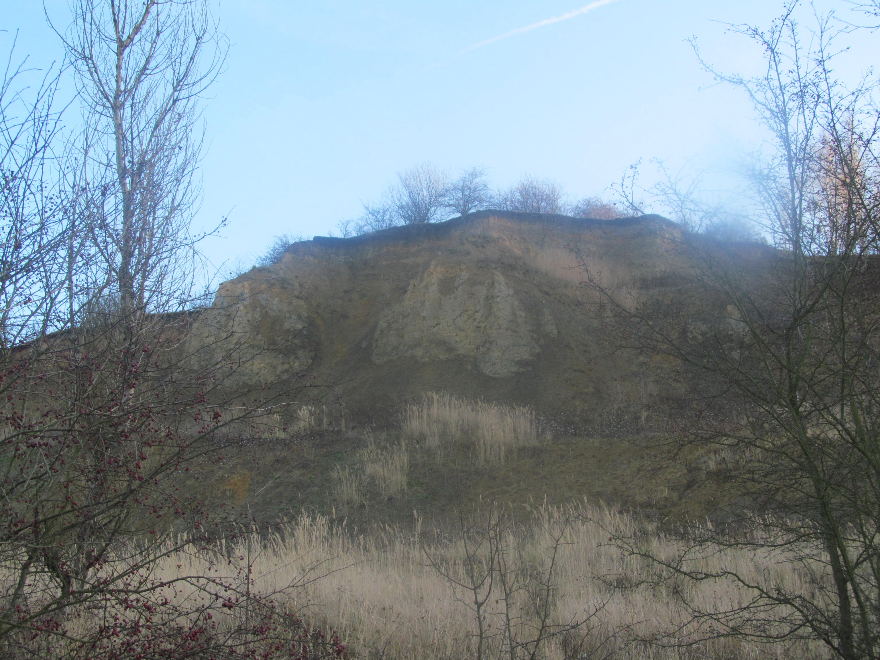 Natural monument Březno u Postoloprt